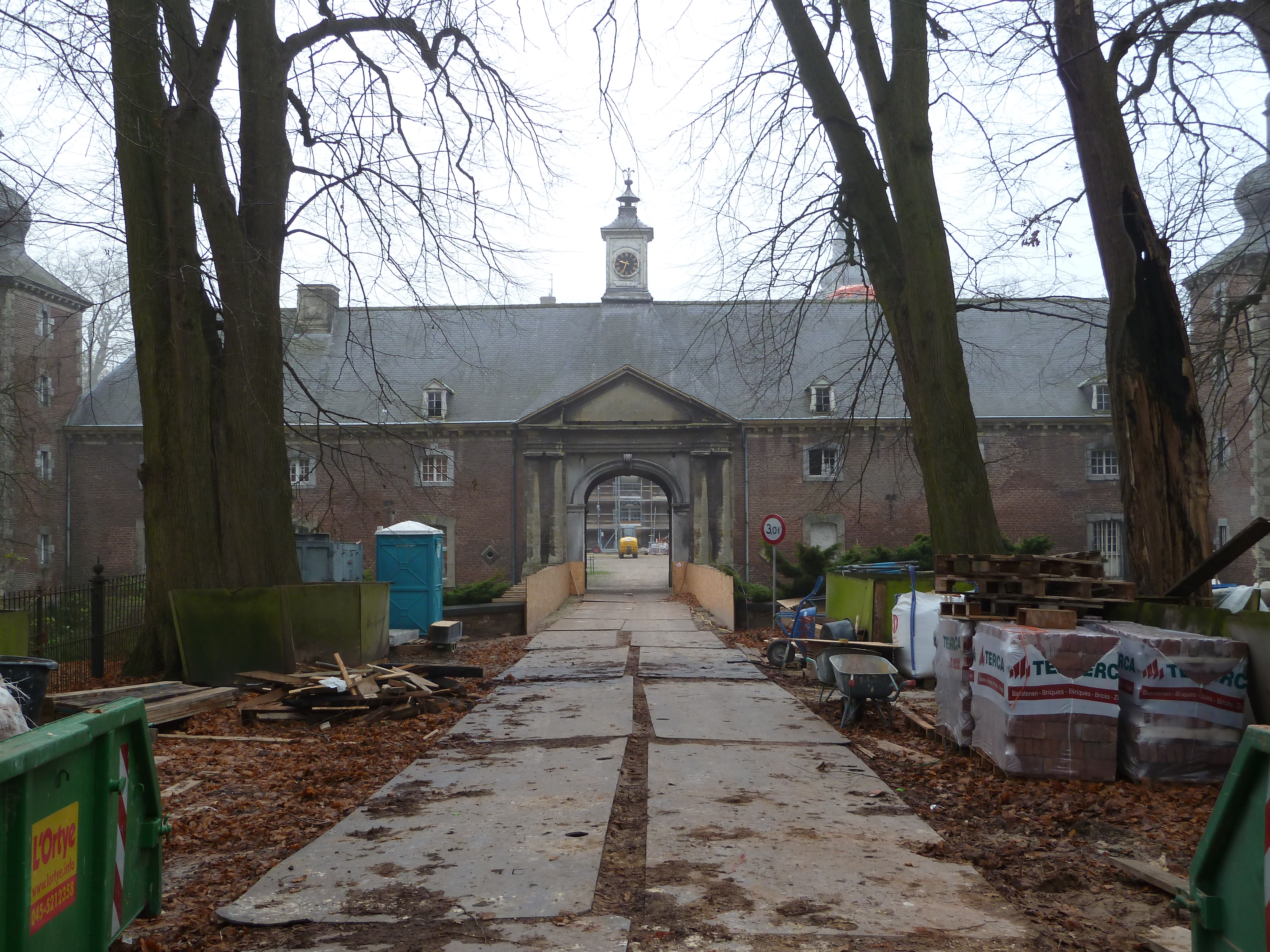 Castle Neubourg, Gulpen, Limburg, the Netherlands